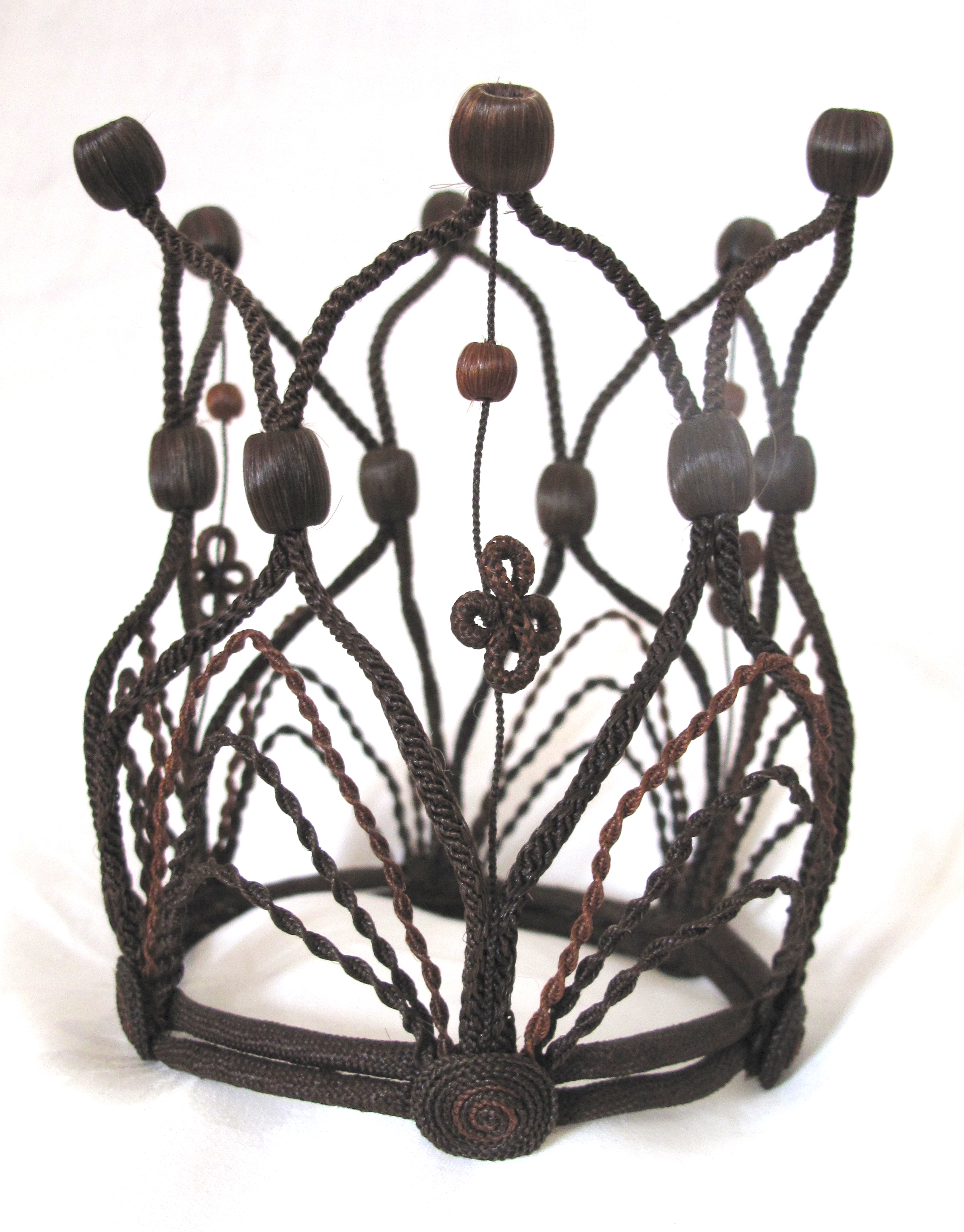 A crown made entirely of human hair. Inside the small circular parts are wooden beads